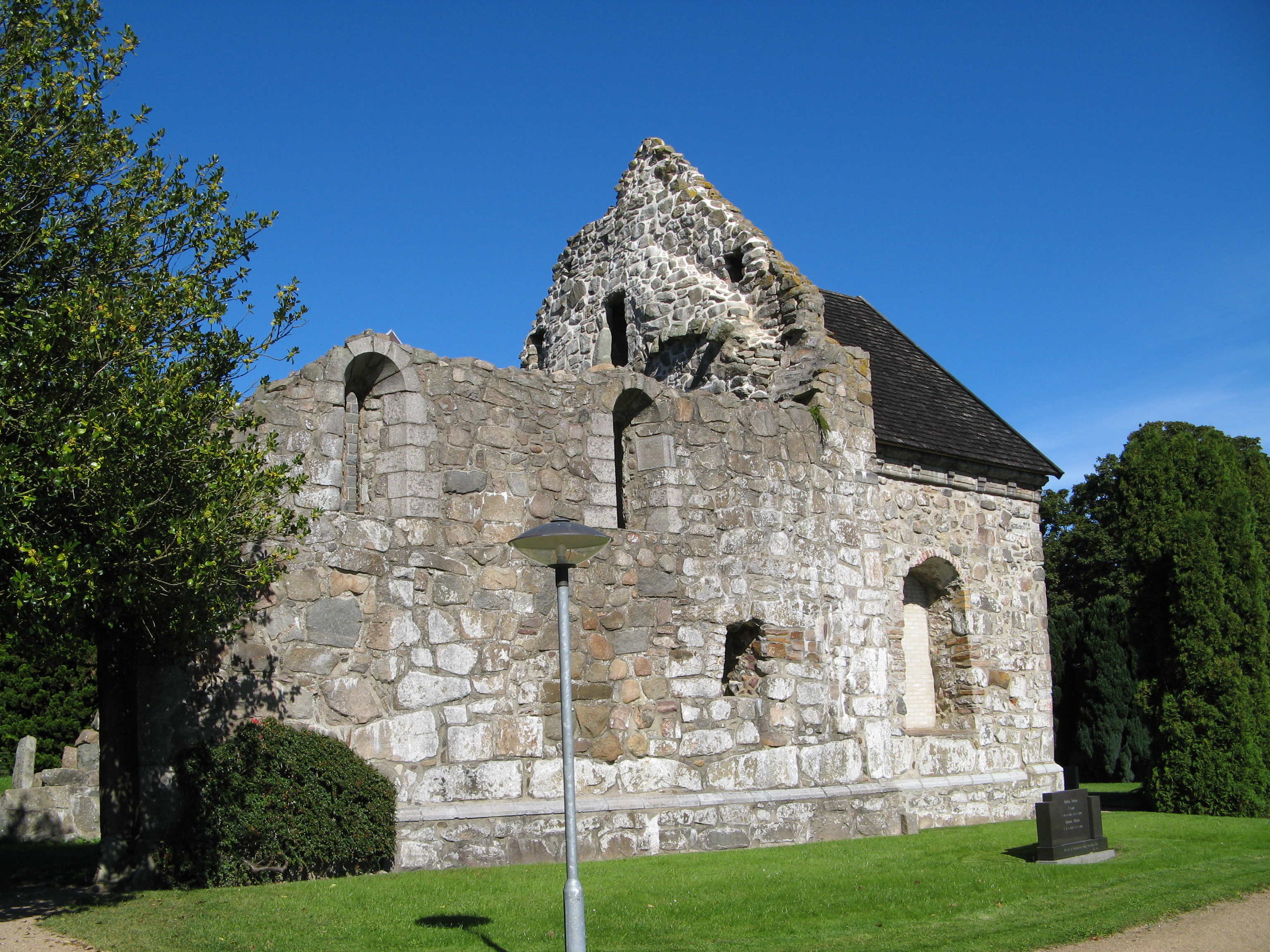 Østermarie Kirke